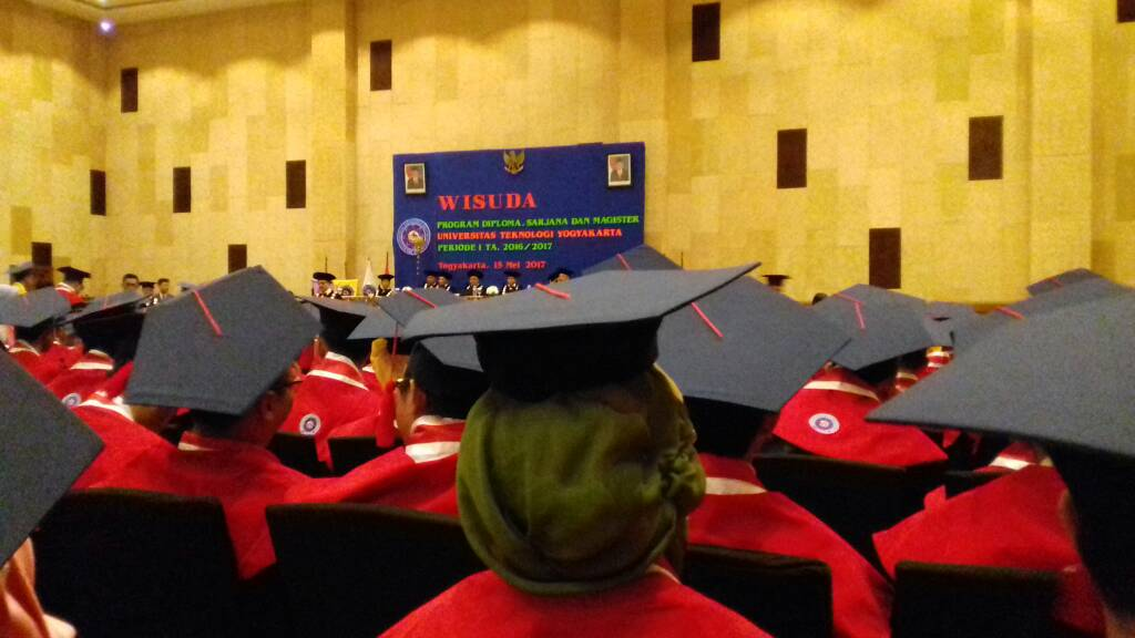 Common type of academic regalia in Indonesia, worn during graduation ceremony it consists of gown, color-coded cape, and cap with tassel